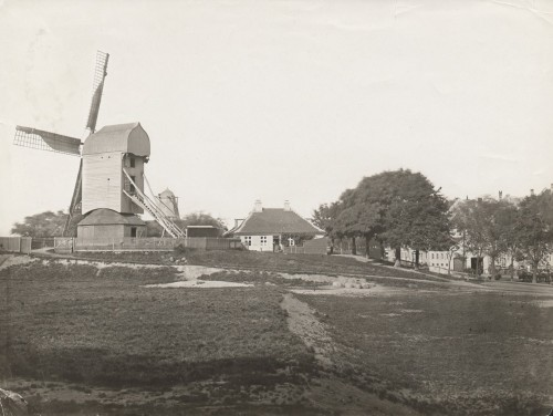 Lucie Mølle which was located on Gyldenløves Bastion at the far end of Lavendelstræde until 1885.